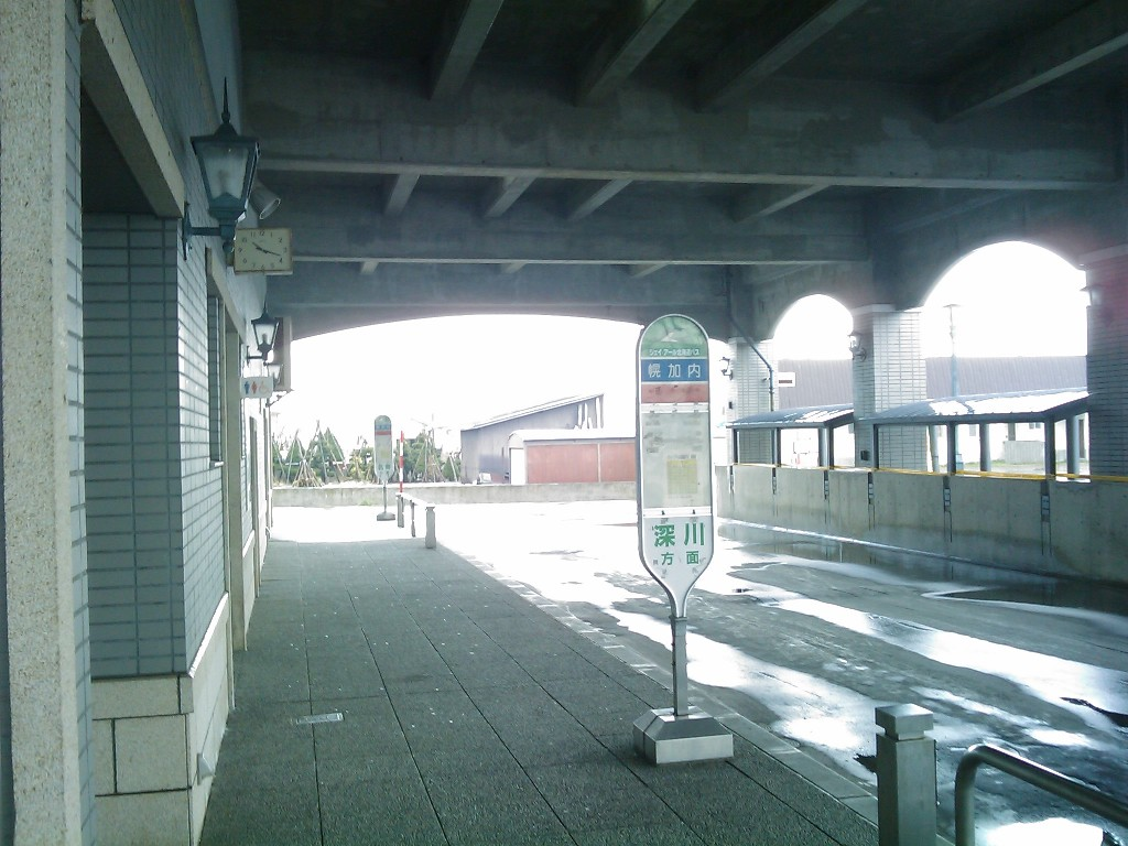 JR Hokkaido Bus Shinmei line "Horokanai" bus stop (Horokanai, Hokkaido)